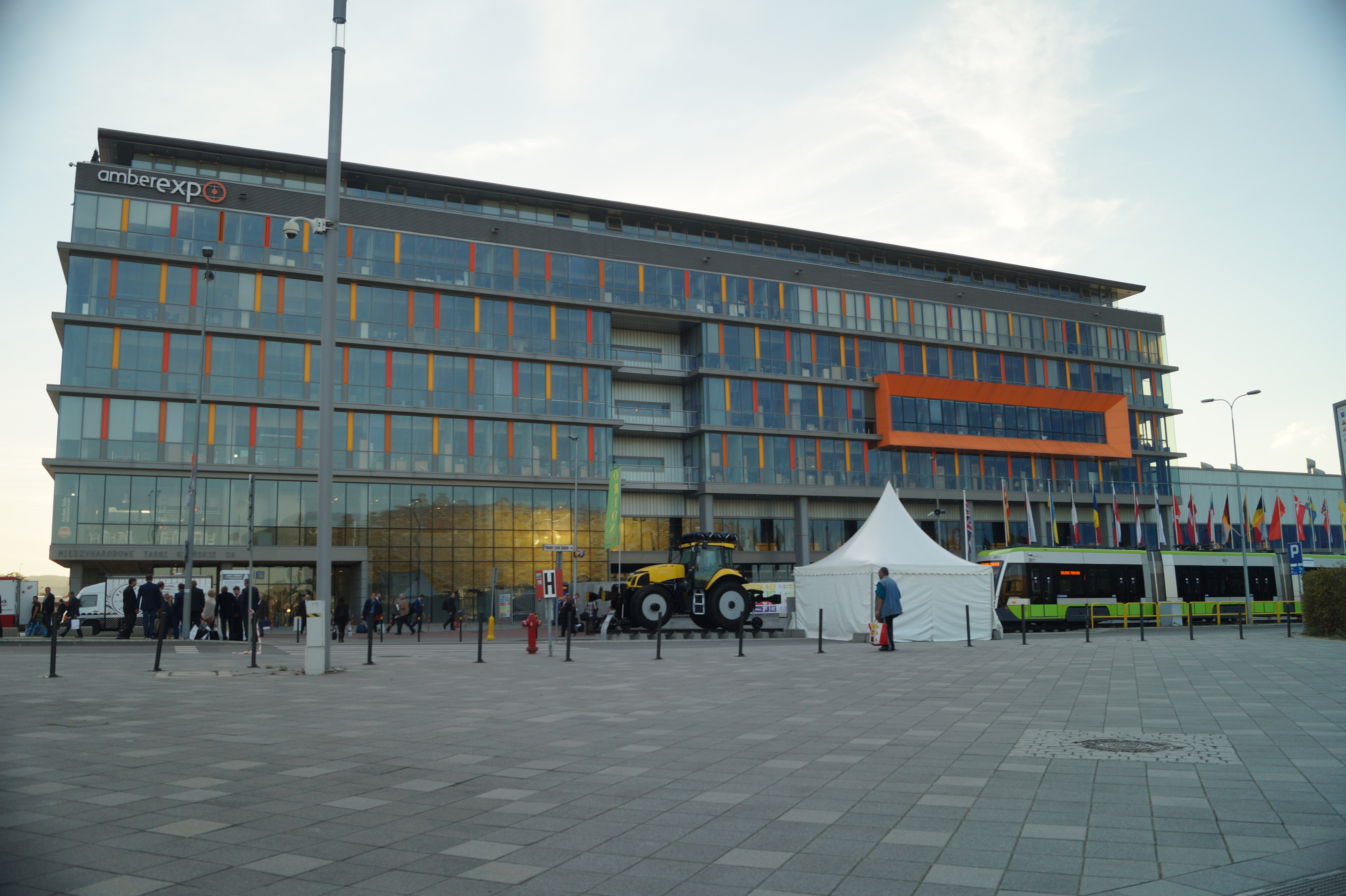 The making of this document was supported by Wikimedia Polska Association, within Wikigrant no. WG 2015-34. Budynek AmberExpo podczas Targów Trako 2015